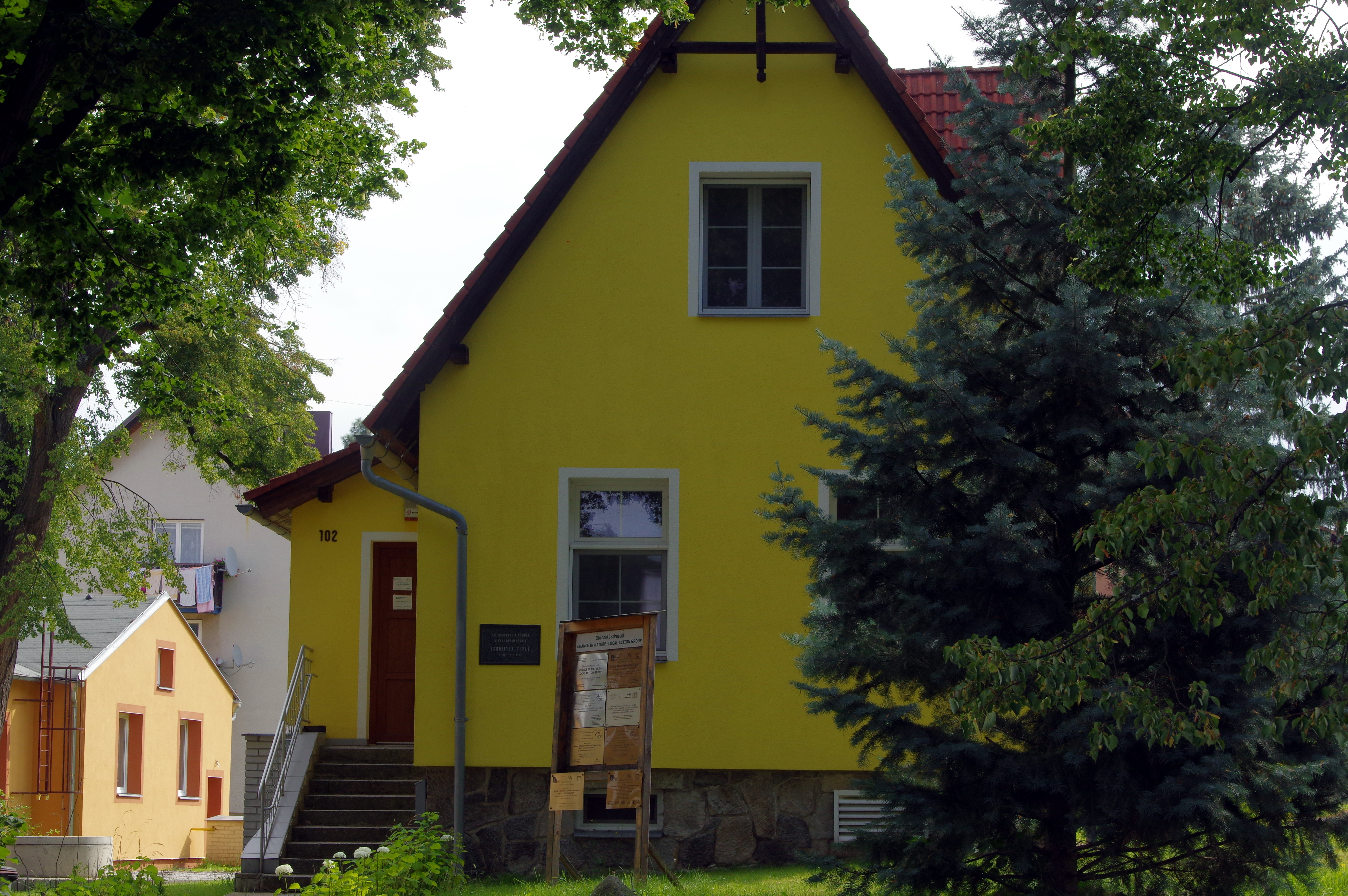 31.7.16 Malenice Raspberry Festival